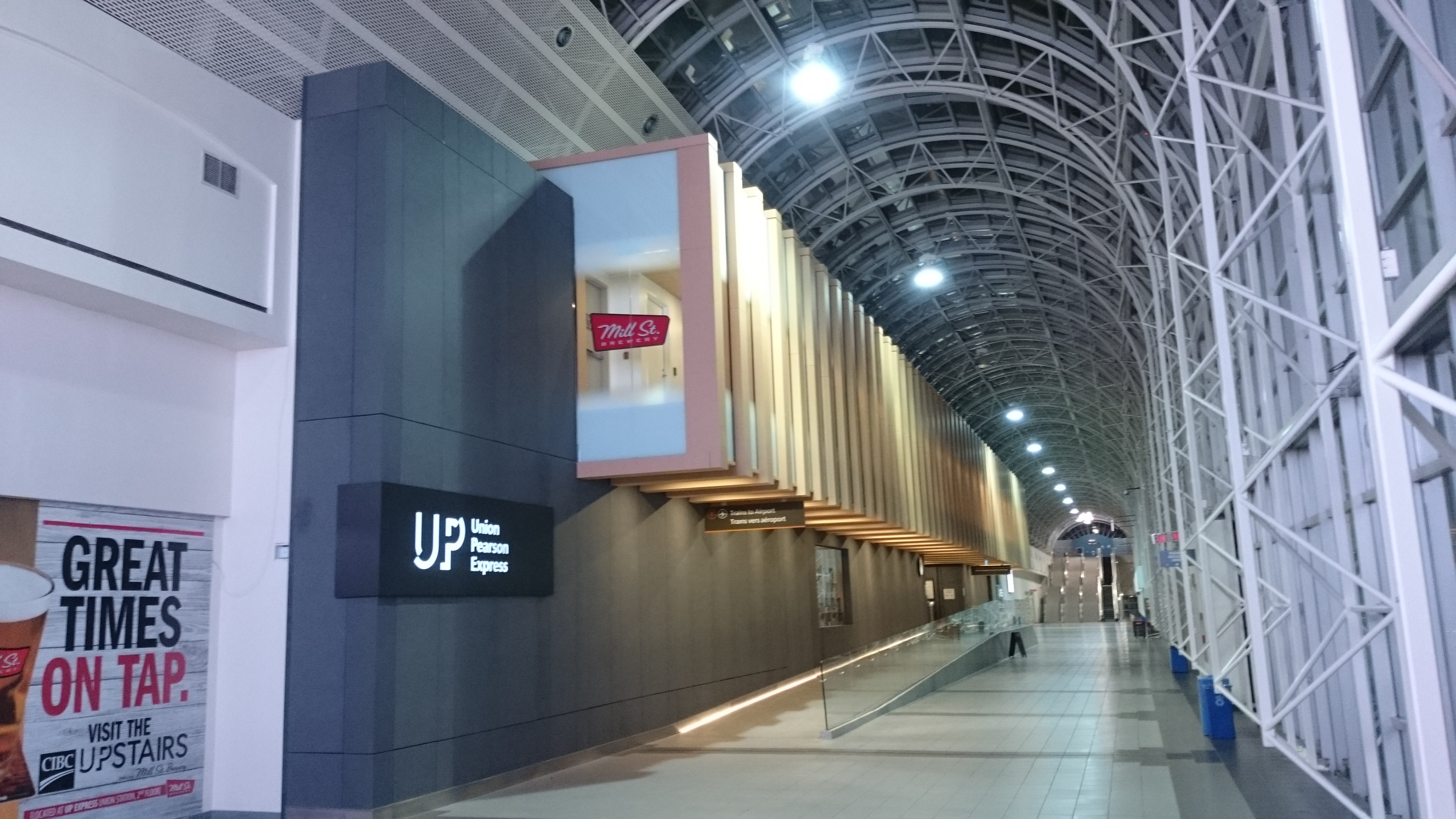 Union Pearson Express